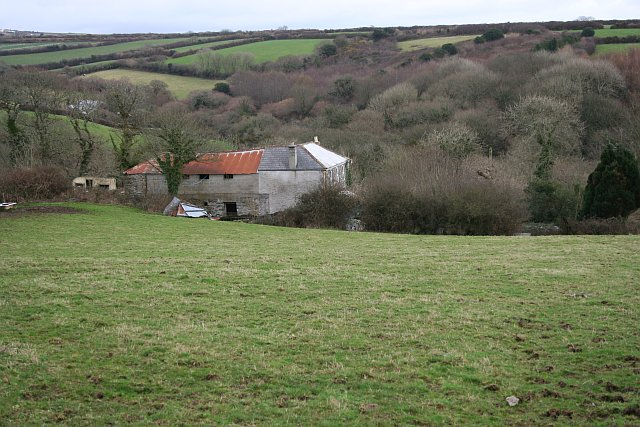 Sithney Green. Looking down into the wooded valley from the west.